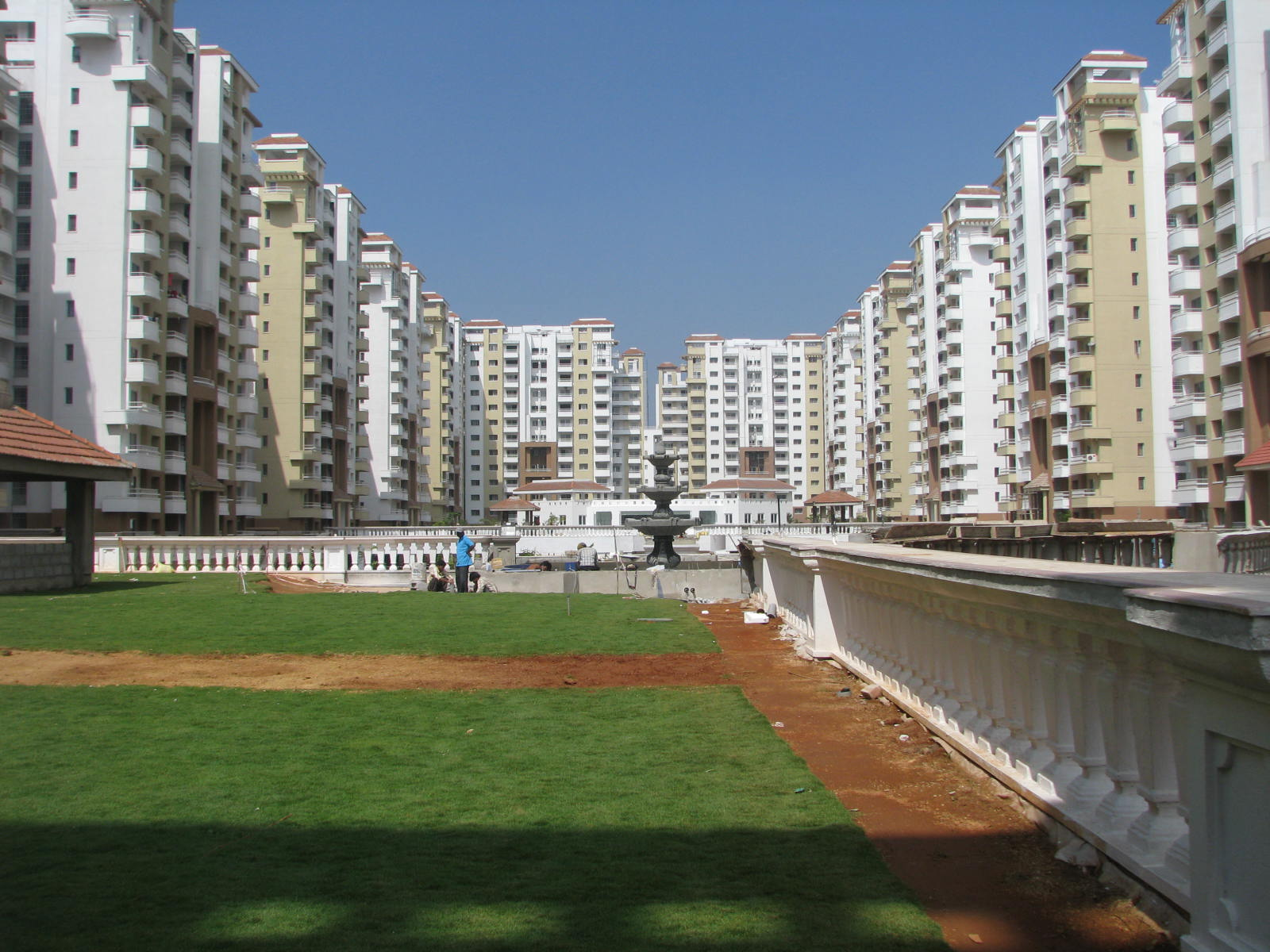 Front side View of Purva Fountain Square